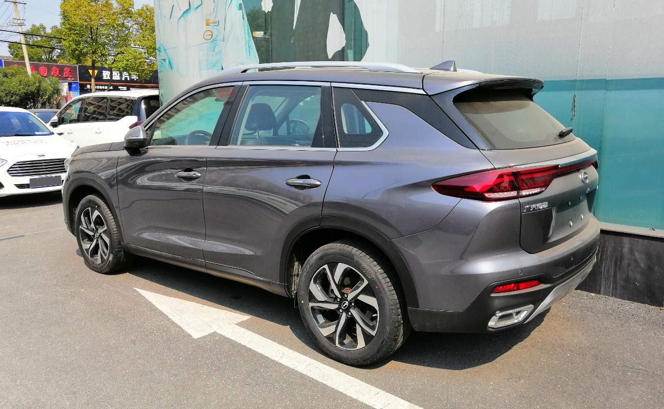 GAC Trumpchi GS5 II photographed in Hefei, Anhui province, China.